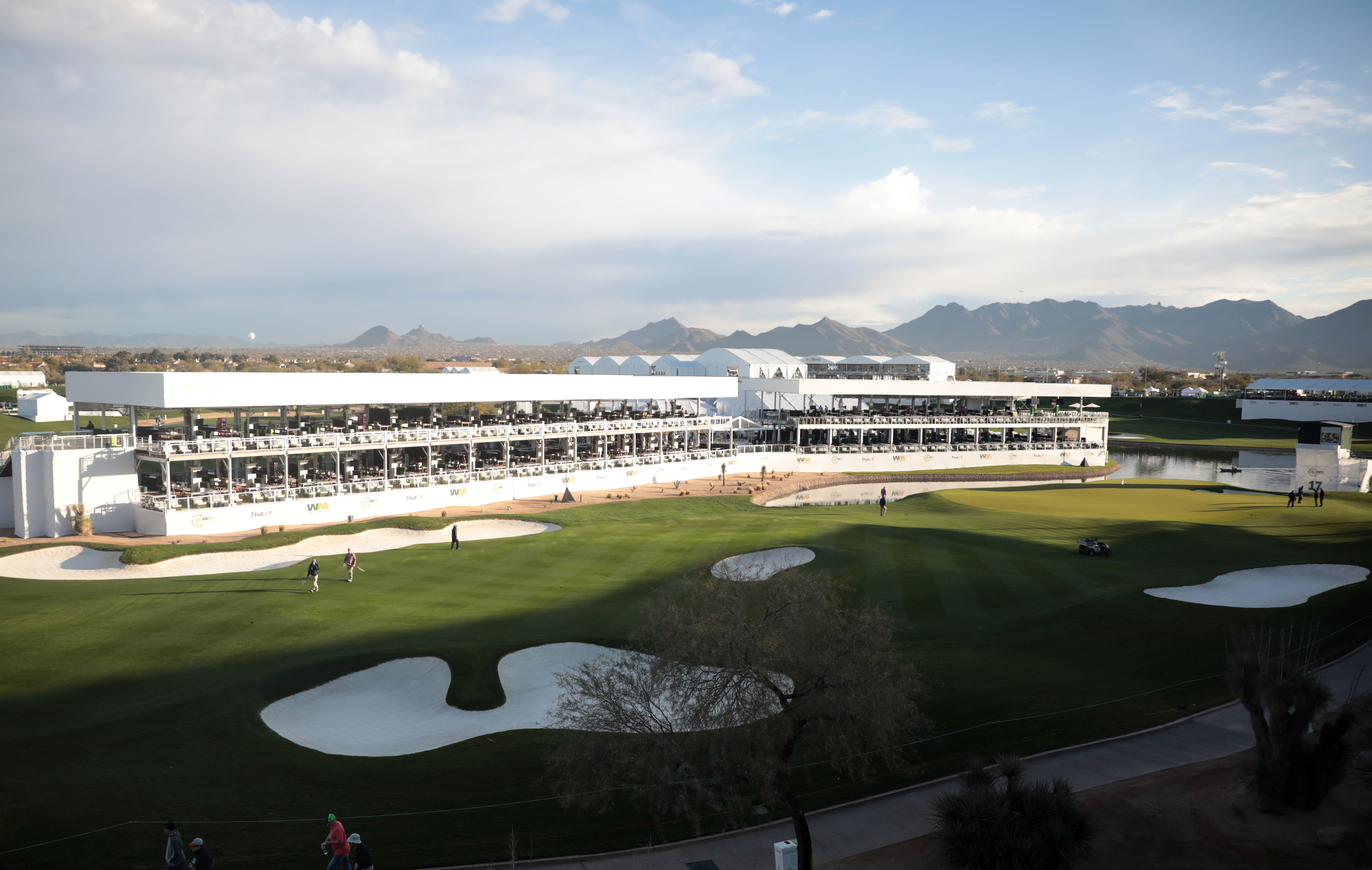 A view of the 17th hole from the Skybar at the 2020 Waste Management Phoenix Open in Scottsdale, Arizona.